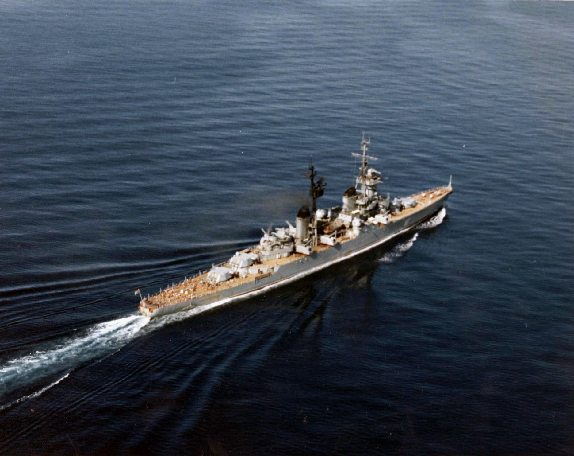 The Soviet cruiser Sverdlov underway in the Indian Ocean, in 1974.